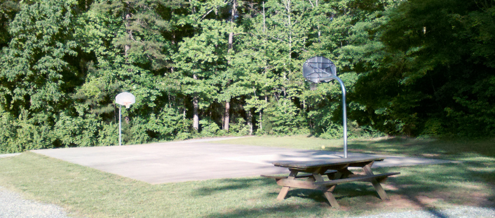 Northwest Park, Chatham County NC, USA, May 2013. Basketball Court.